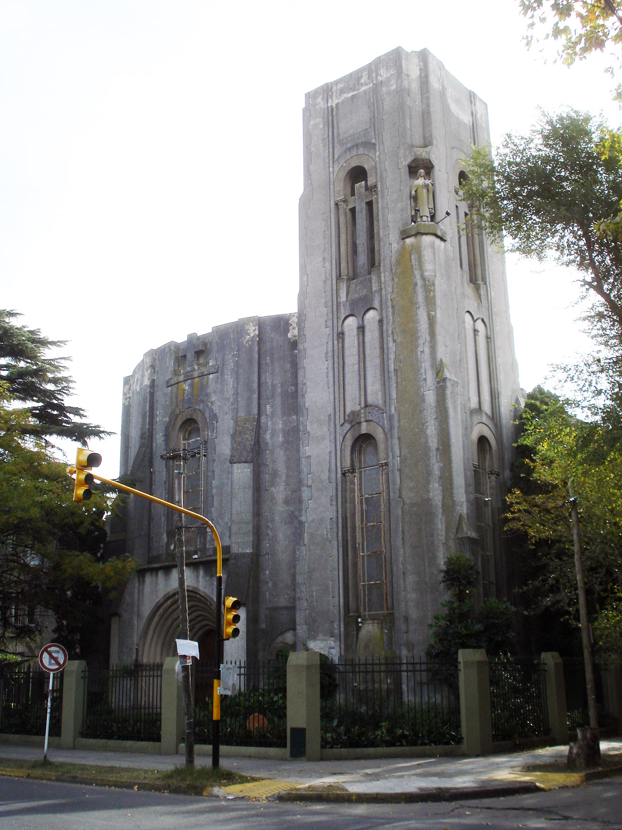 Photography of Santa Teresita del Niño Jesús Church in Florida, Vicente López, Buenos Aires province, Argentina